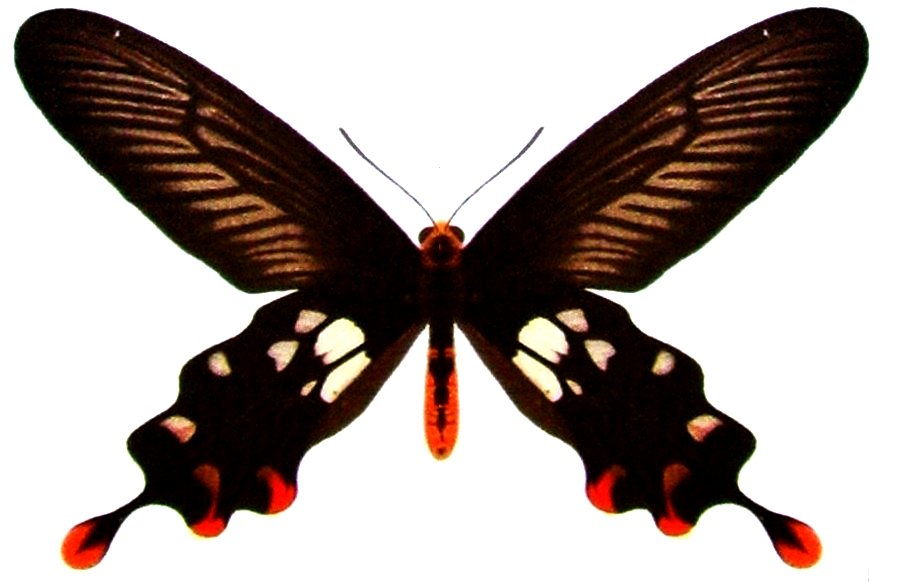 Andaman Clubtail, upperwing